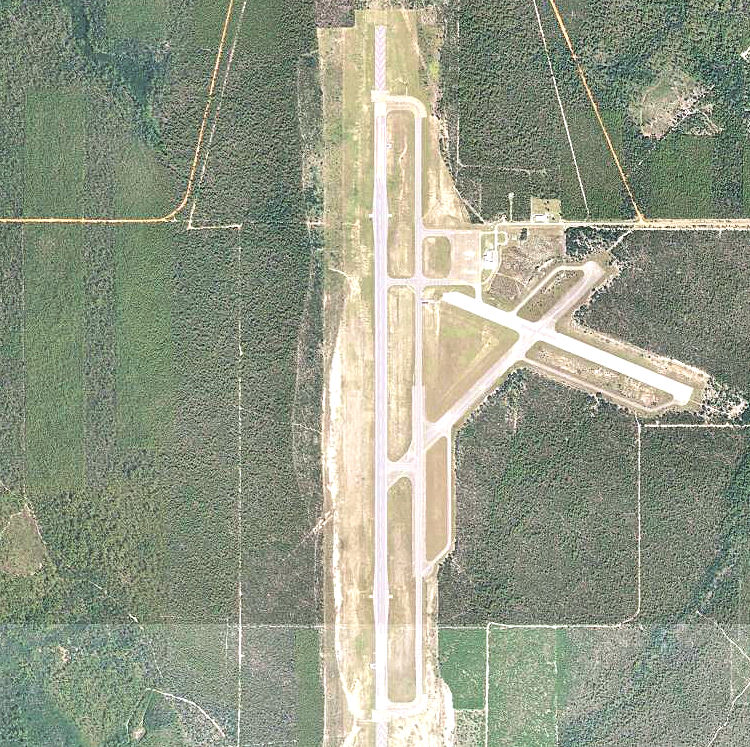 USGS digital orthophoto of Choctaw Naval Outlying Field, an airfield in Florida